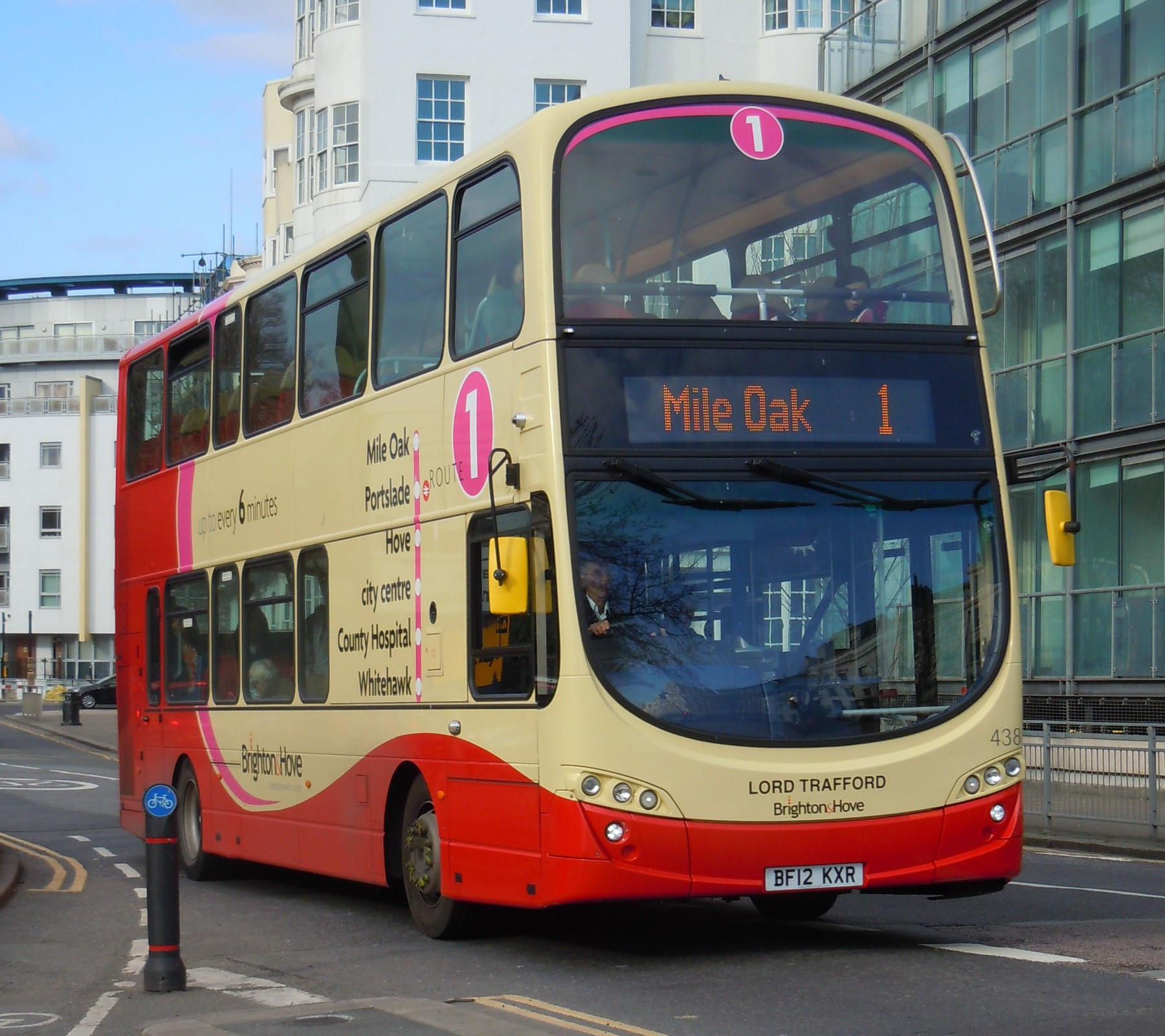 Brighton & Hove 438 Lord Trafford (BF12 KXR), a Volvo B9TL/Wright Eclipse Gemini 2, at Old Steine, Brighton, with a route 1 bus to Mile Oak. (This is a cropped and PD-licenced version of a photo I have already uploaded to my Flickr account